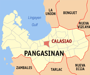 Map of Pangasinan showing the location of Calasiao